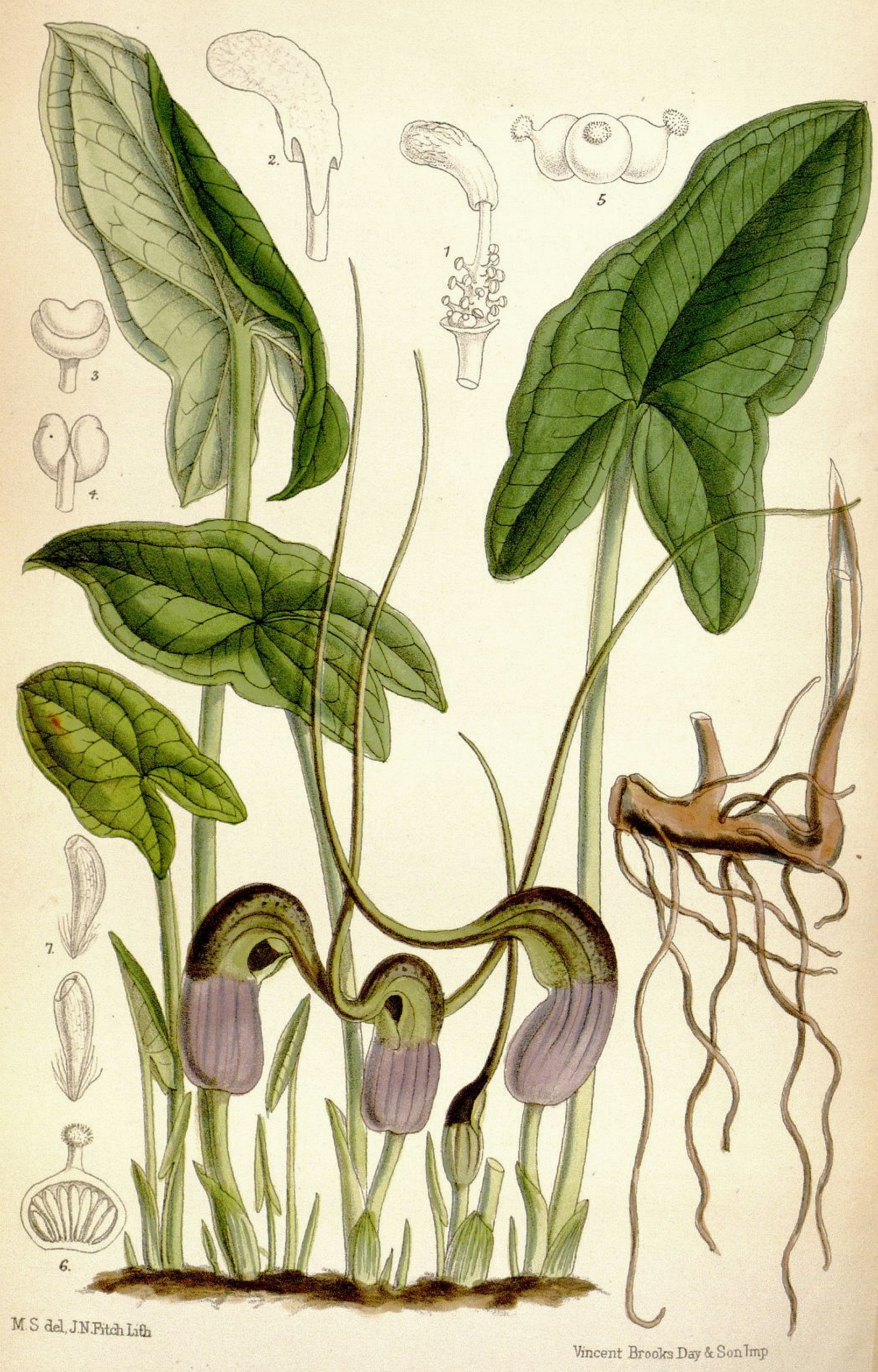 Arisarum proboscideum botanical drawing